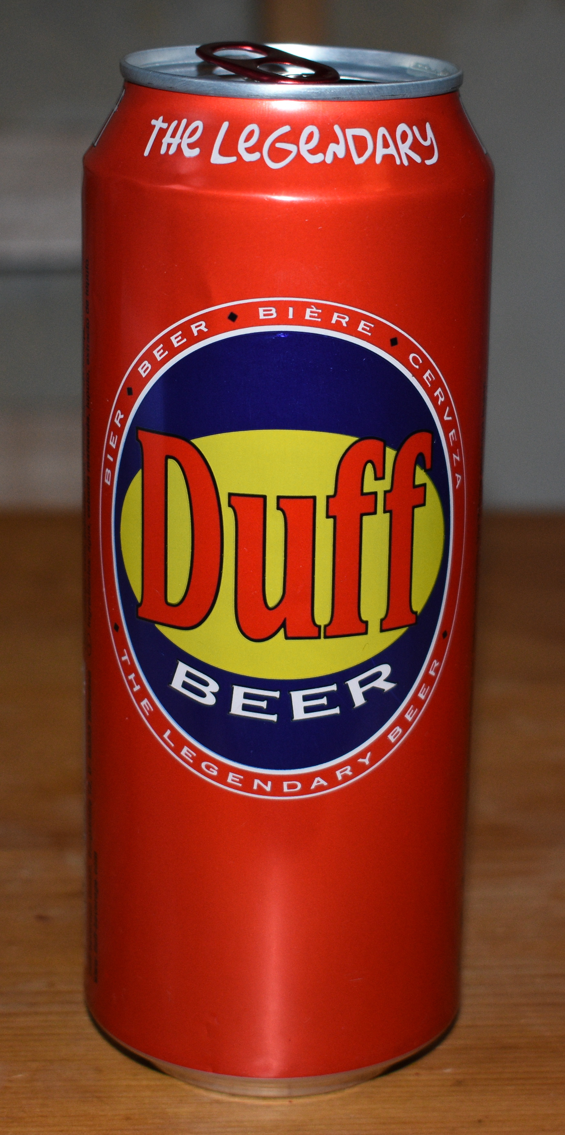 A can of "Duff" beer, manufactured by Duff beverage GmbH (based in Munich), sold in a supermarket in Germany in August 2017.